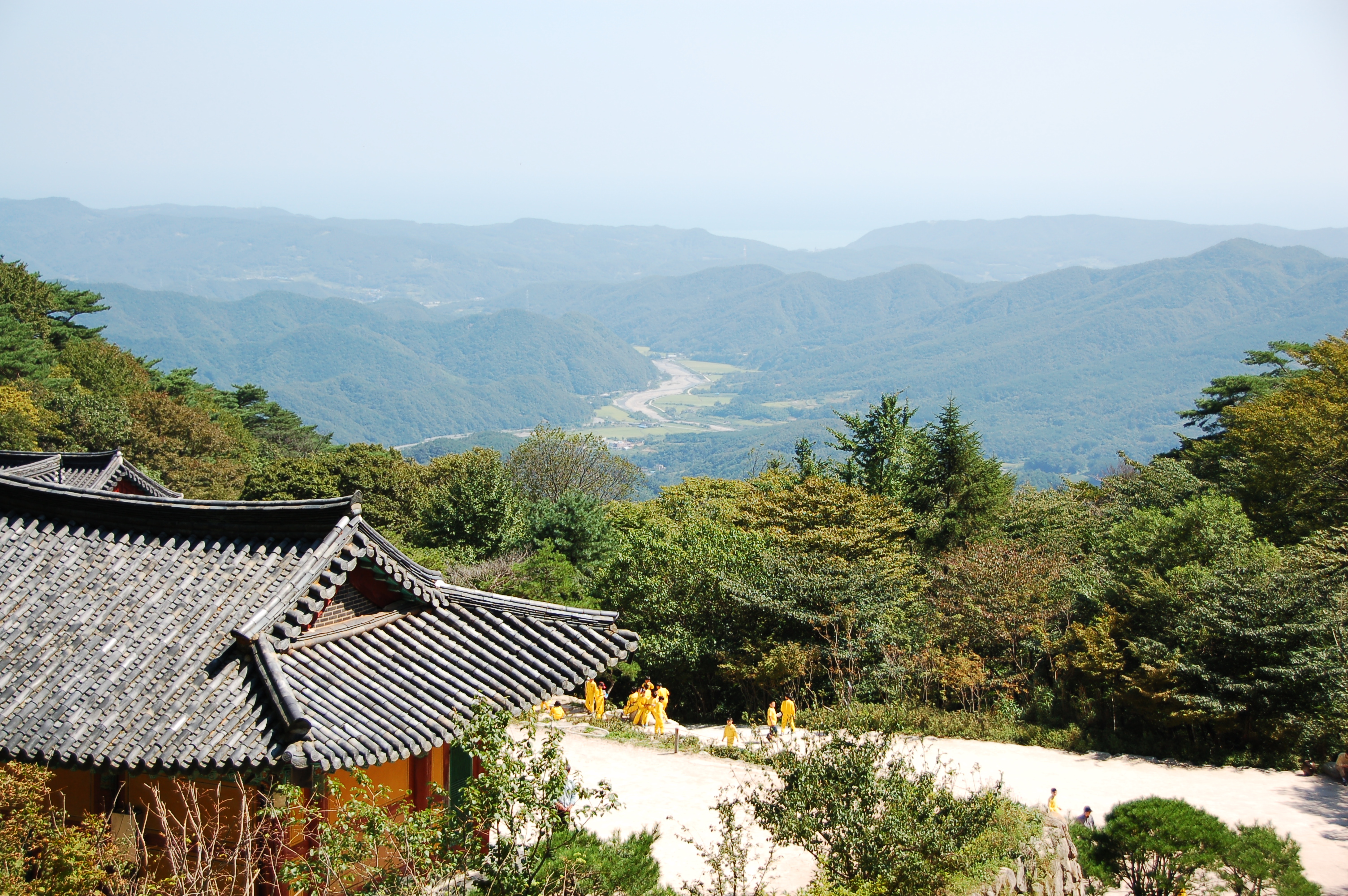 Seokguram Grotto faces the East Sea (Sea of Japan) and may have been built to protect the Silla nation from Yamato pirates.